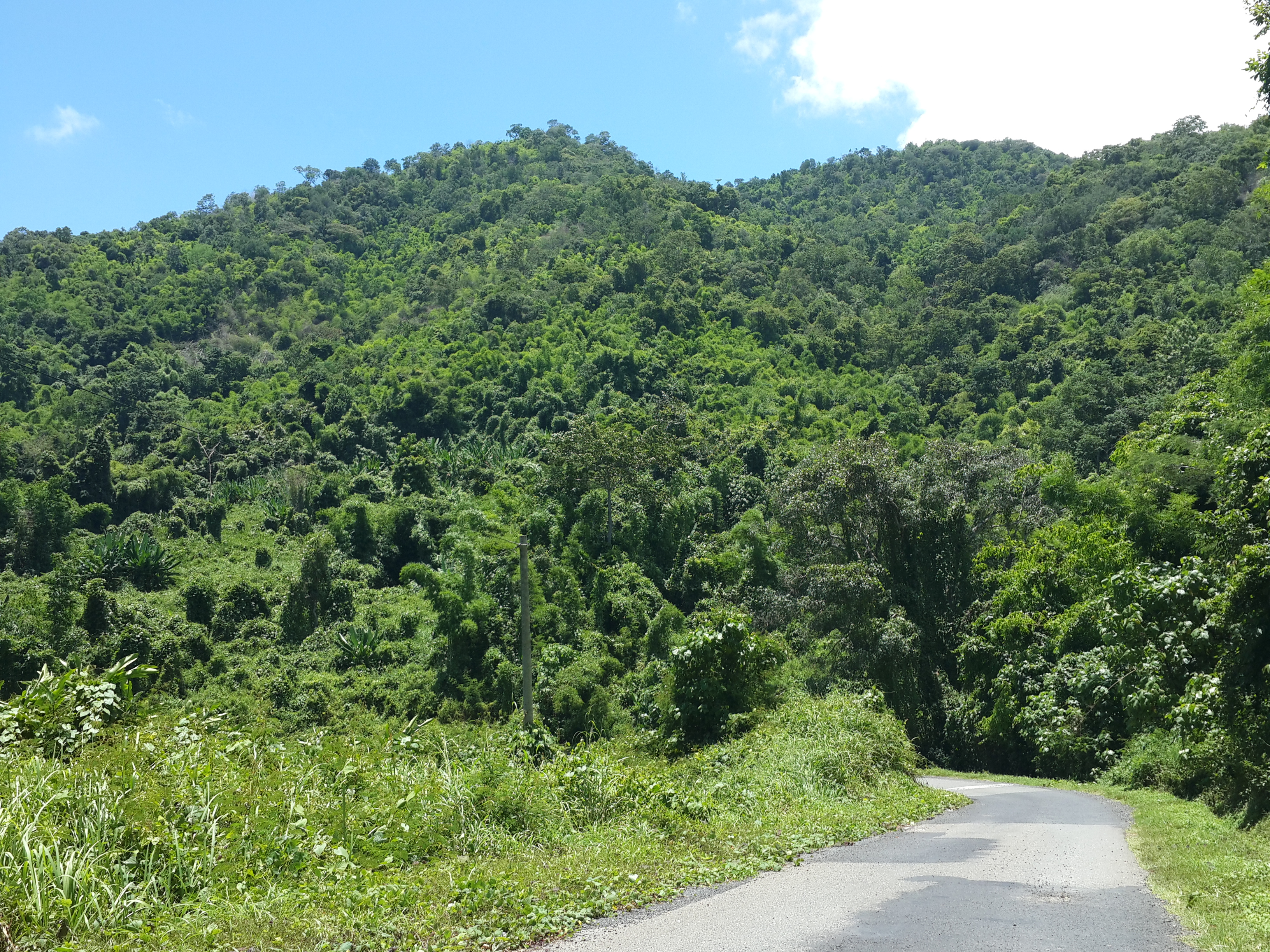 Gia Bac Pass - Highway 28